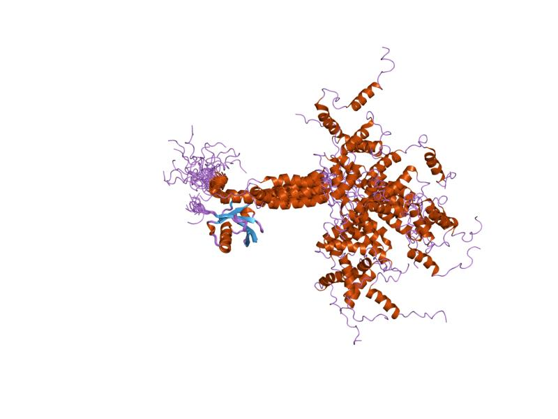 Cartoon representation of the molecular structure of protein registered with 1yx5 code.